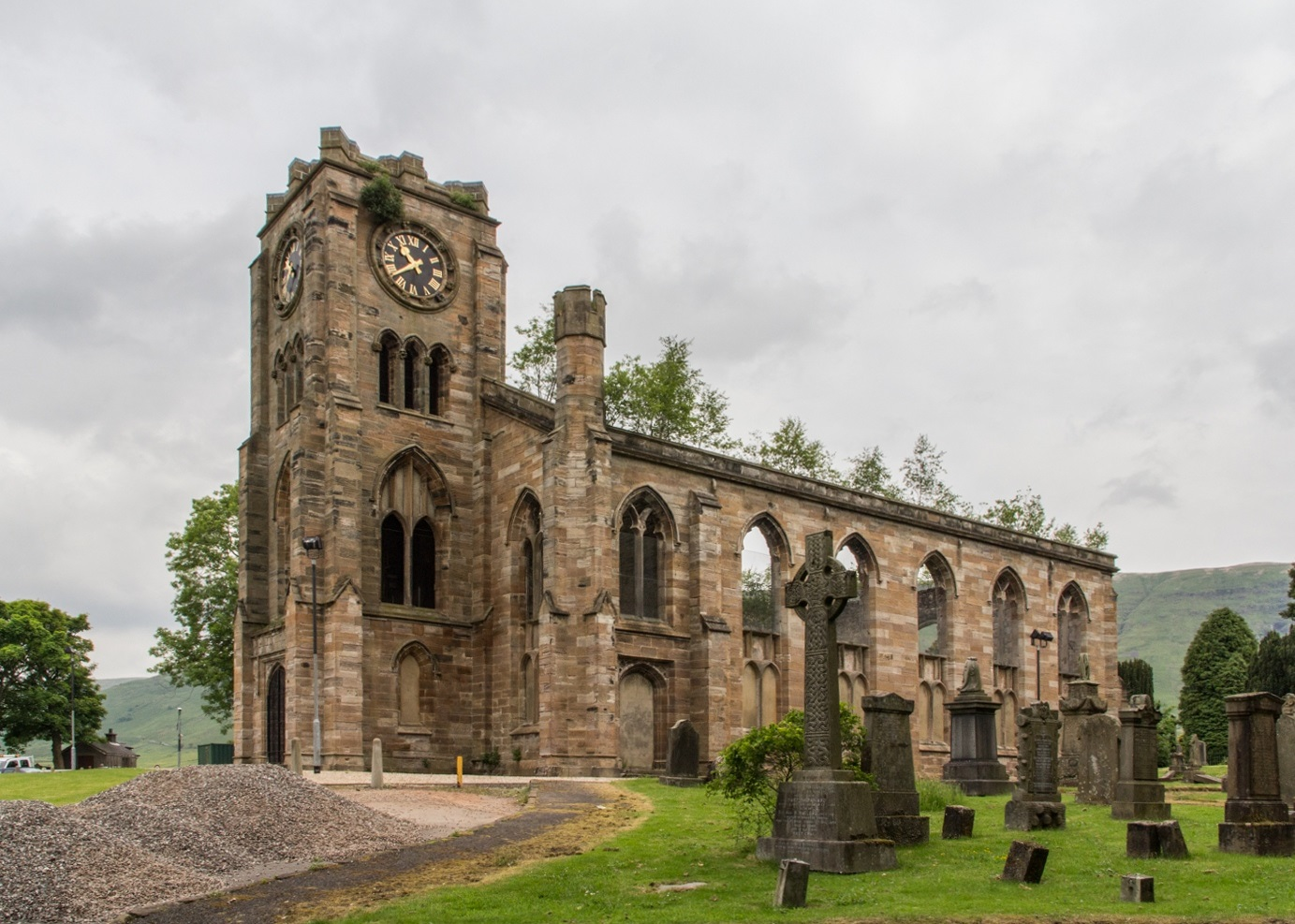 The High Church Of Campsie in Lennoxtown, seen from the south